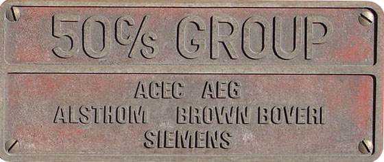 Spoornet Class 14E 14-001 builders' plates Builder's Number: HST 16657-1-3/1988 Location: Stikland, Cape Town